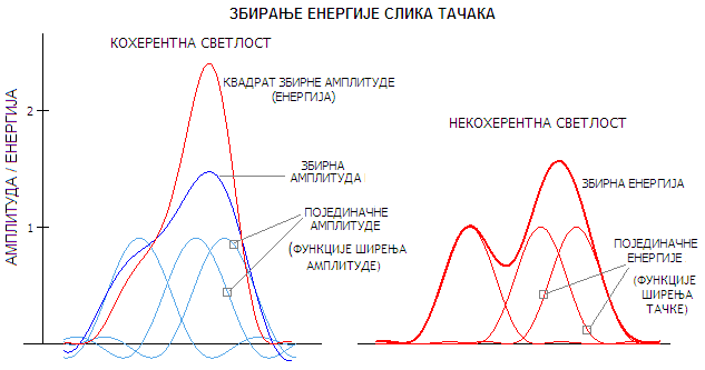 СТВАРАЊЕ СЛИКЕ У КОХЕРЕНТНОЈ И НЕКОХЕРЕНТНОЈ СВЕТЛОСТИ